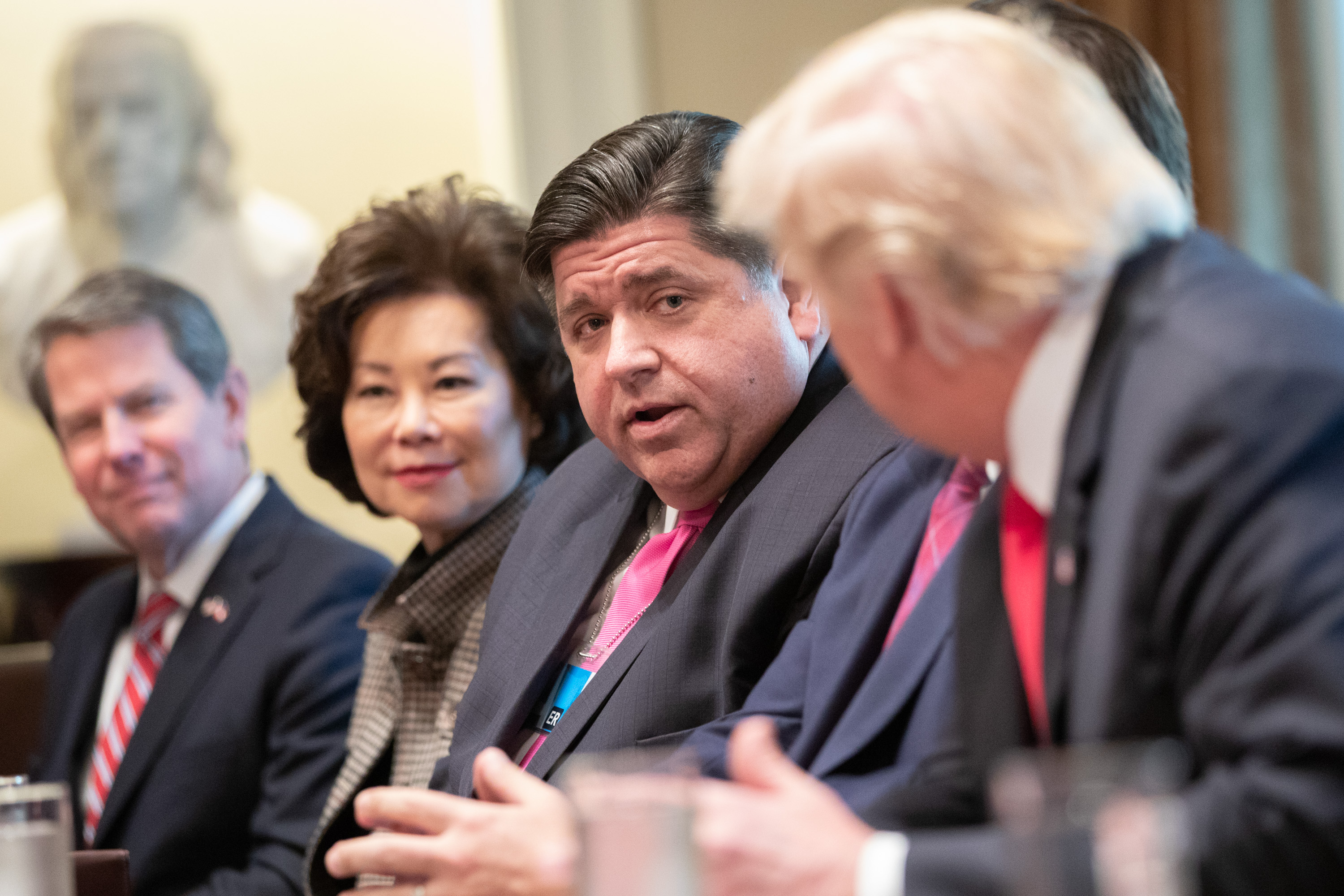 Governor-elect J.B. Pritzker, D- Ill., joins President Donald J. Trump and Vice President Mike Pence, in the Cabinet Room of the White House Thursday, Dec. 13, 2018, during a discussion with Governors-Elect from around the nation. (Official White House Photo by Shealah Craighead)